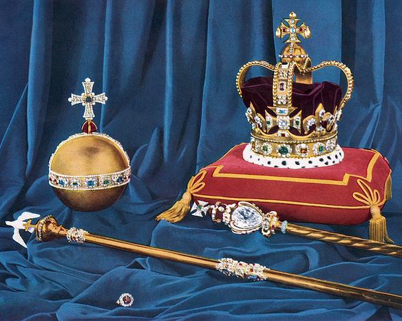 "St Edward's Crown, the Crown of England, which weighs nearly five pounds, the hollow gold Orb, the Sceptre with the Cross, Sceptre with the Dove, and the Ring." First colour photograph ever published of the regalia.